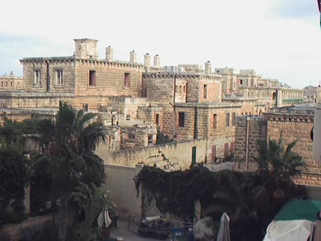 Screenshot of Tigne Barracks before demolition in 2002. Taken from a hotel balcony.